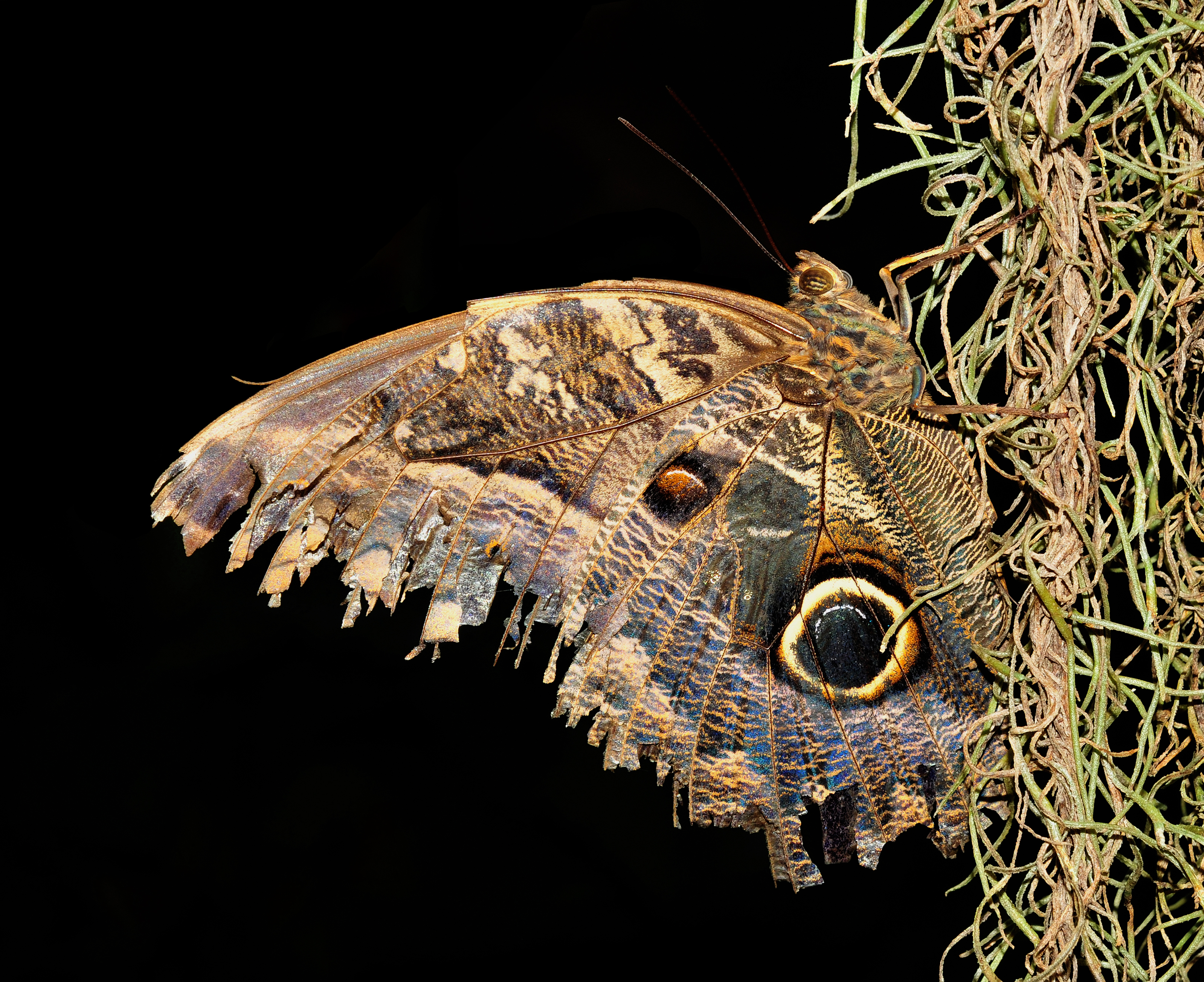 A unhealthy/wing-damaged Caligo eurilochus at the Schmetterlingshaus (Butterfly zoo) in the Palmenhaus (palm house) near the Burggarten in Vienna, Austria.